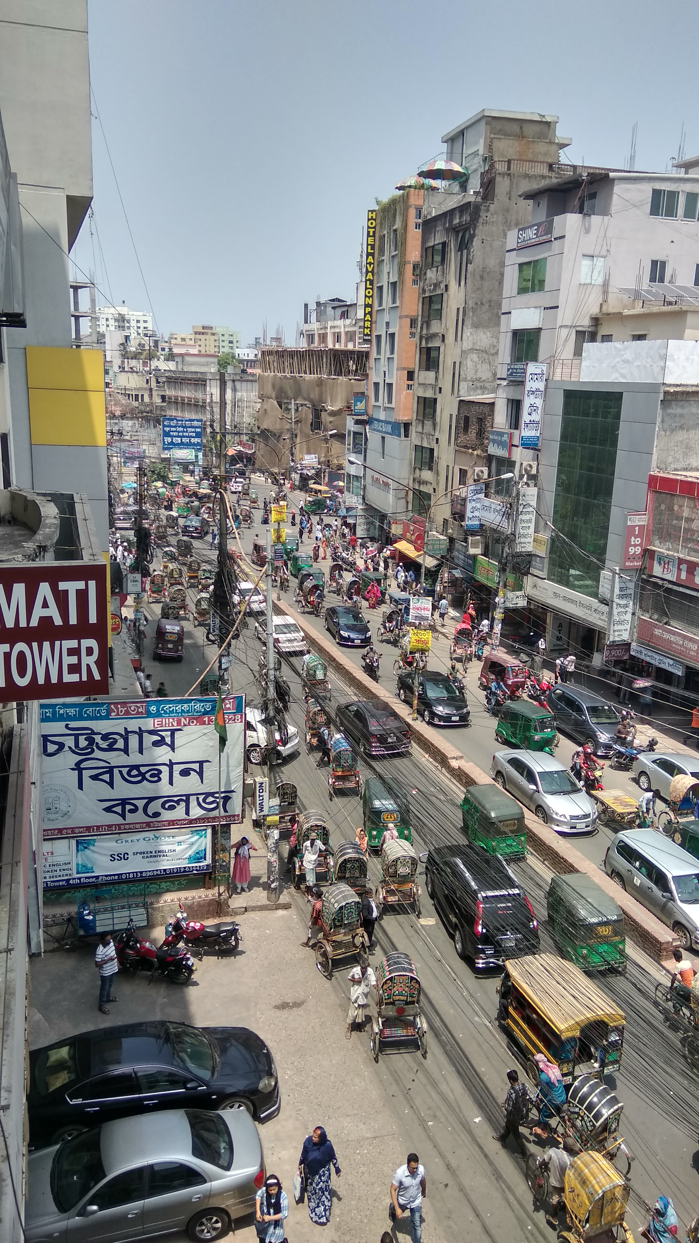 This is an image of chawkbazar area in Chittagong City.